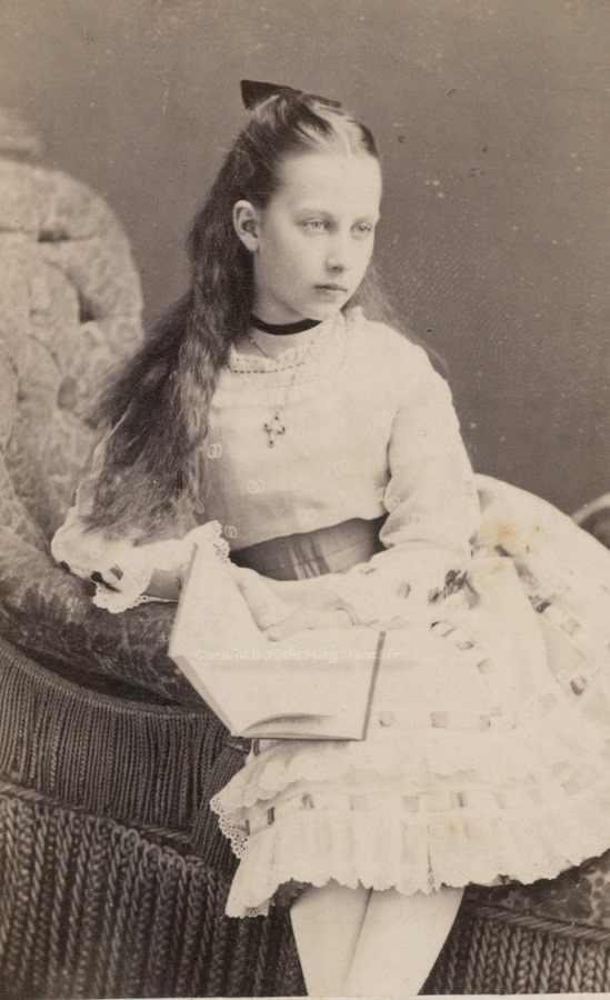 Принцесса Шарлотта Прусская